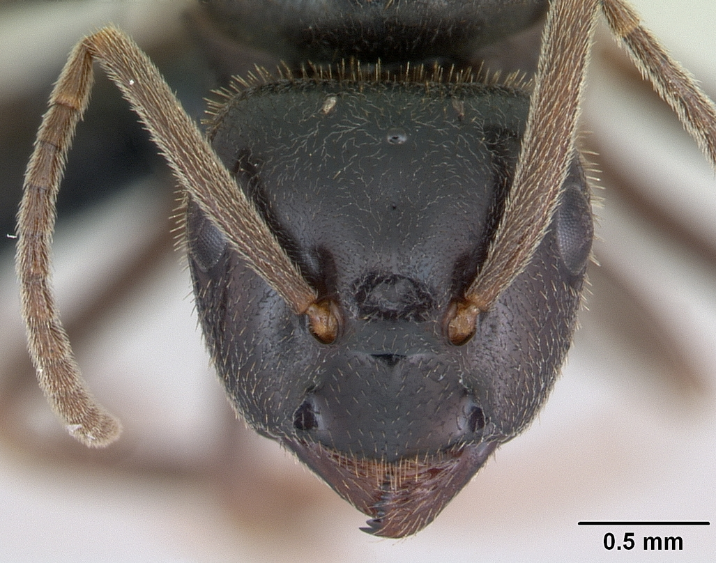 Head view of ant Lasius fuliginosus specimen casent0172764.